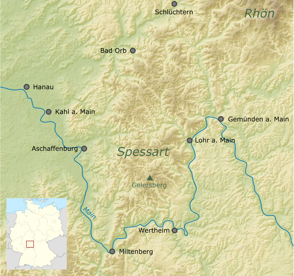 Map of the Spessart in Germany